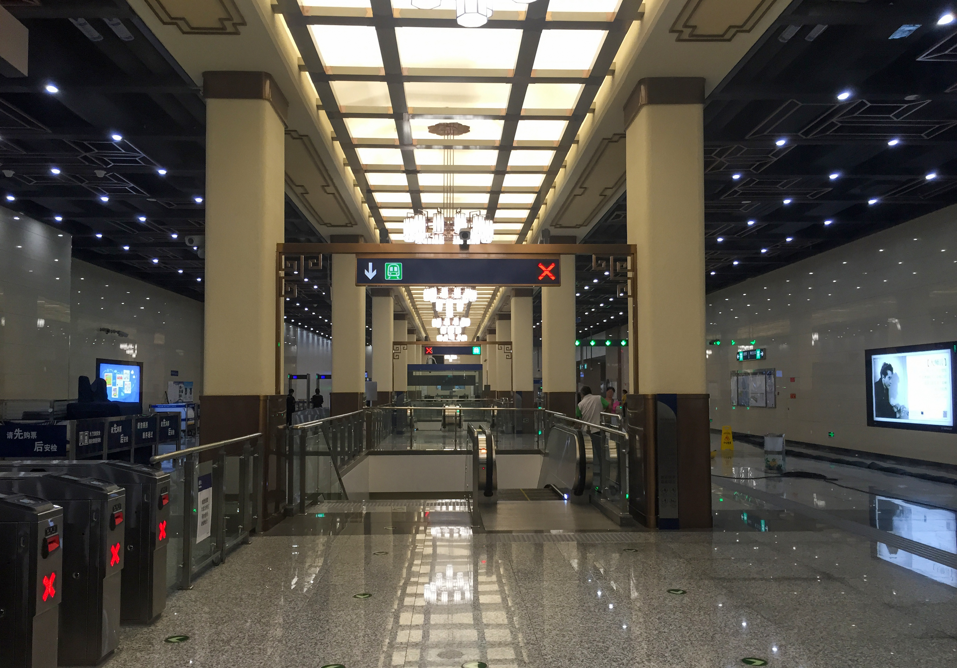 It handles the least traffic among those stations.